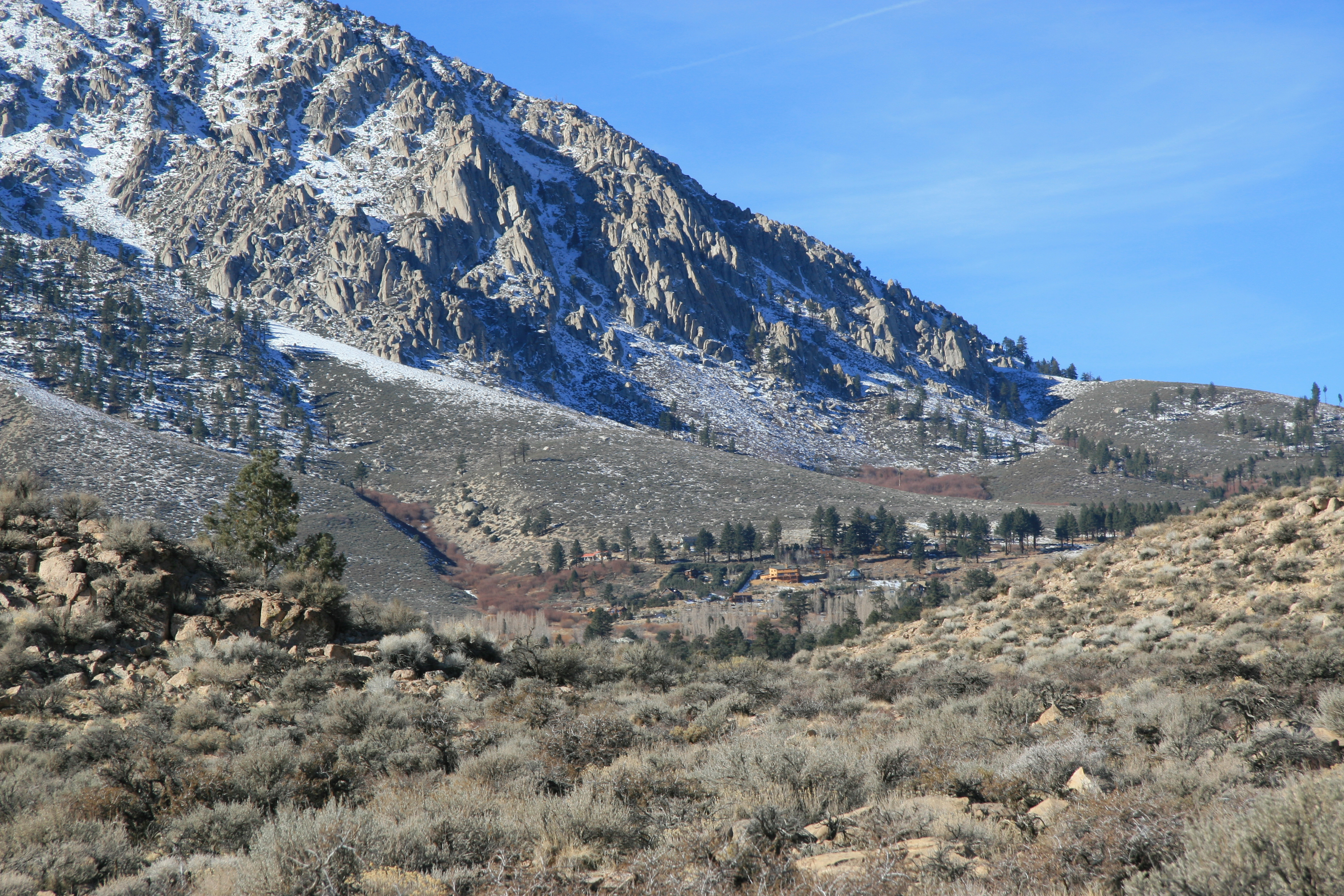 Top end of Swall Meadows, California, at nearly 7000ft under the Wheeler Crest. Viewed from the east (lower part of community is hidden behind ridge at left).